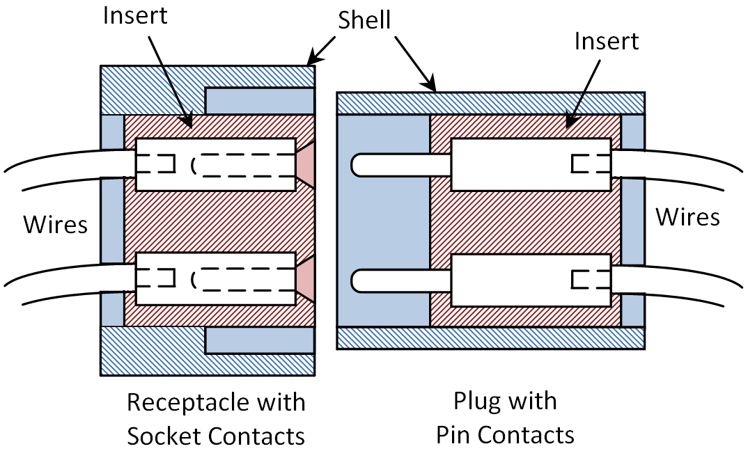 Connector Pair Drawing Corrected